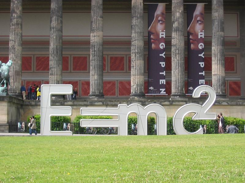 „Relativity“, sixth und last sculpture of the Berliner Walk of Ideas on the occasion of 2006 FIFA World Cup Germany. Unveiling: 19 May 2006 in Lustgarten. In the Background: Altes Museum (Old Museum), between 1825 and 1828 built by Schinkel